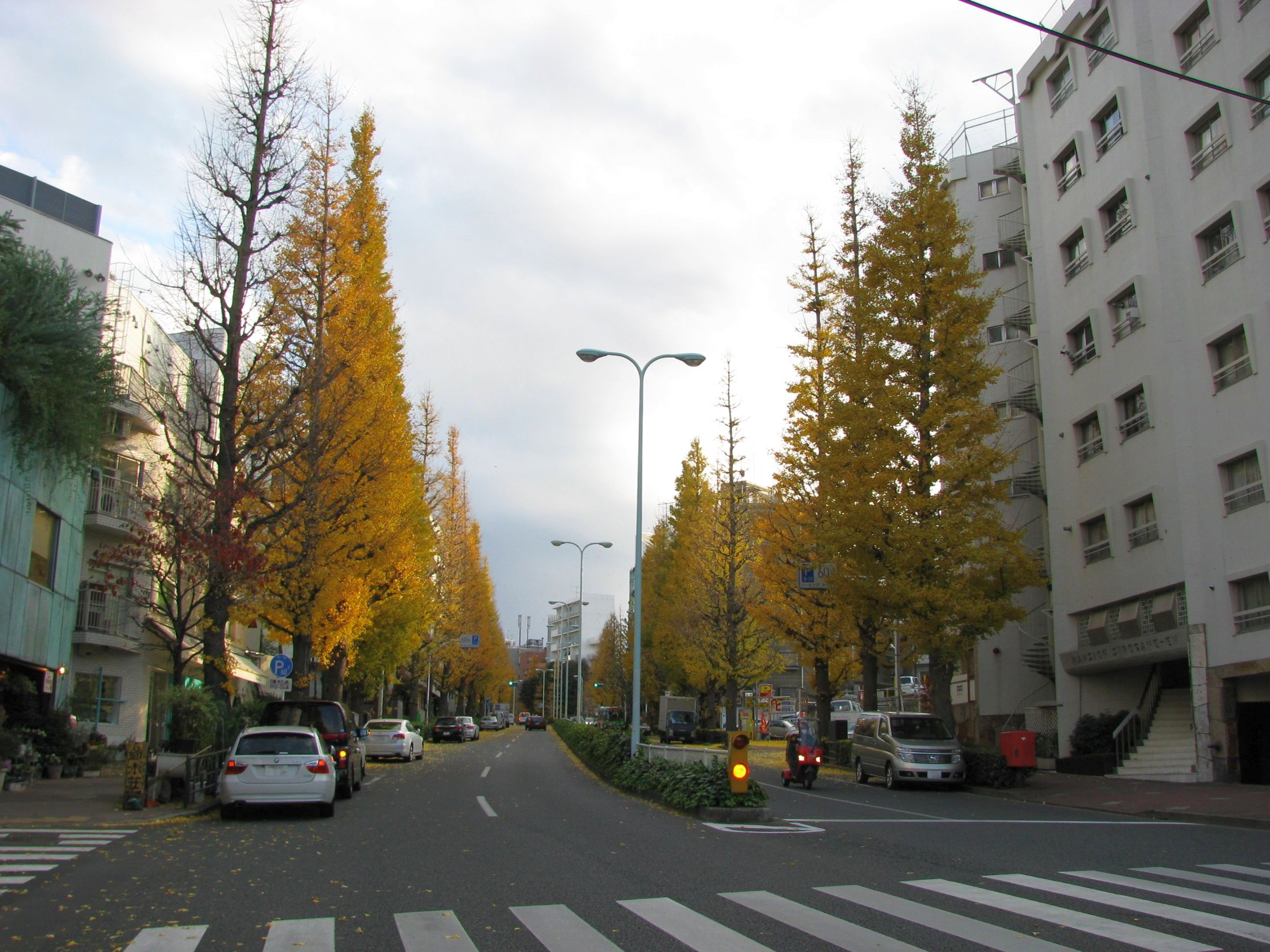 The Tokyo Prefectural Route 418. This location is Shirokane in Minato, Tokyo, Japan.